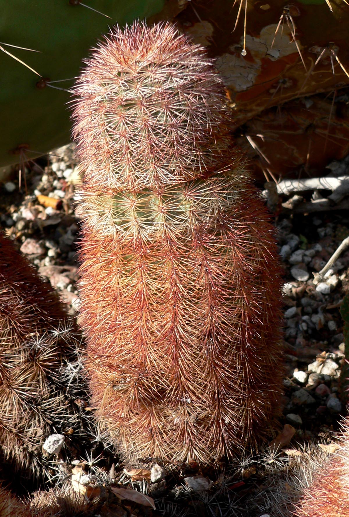 Photo of Echinocereus pectinatus dasyacanthus (comb hedgehog) at the Springs Preserve garden in Las Vegas, Nevada